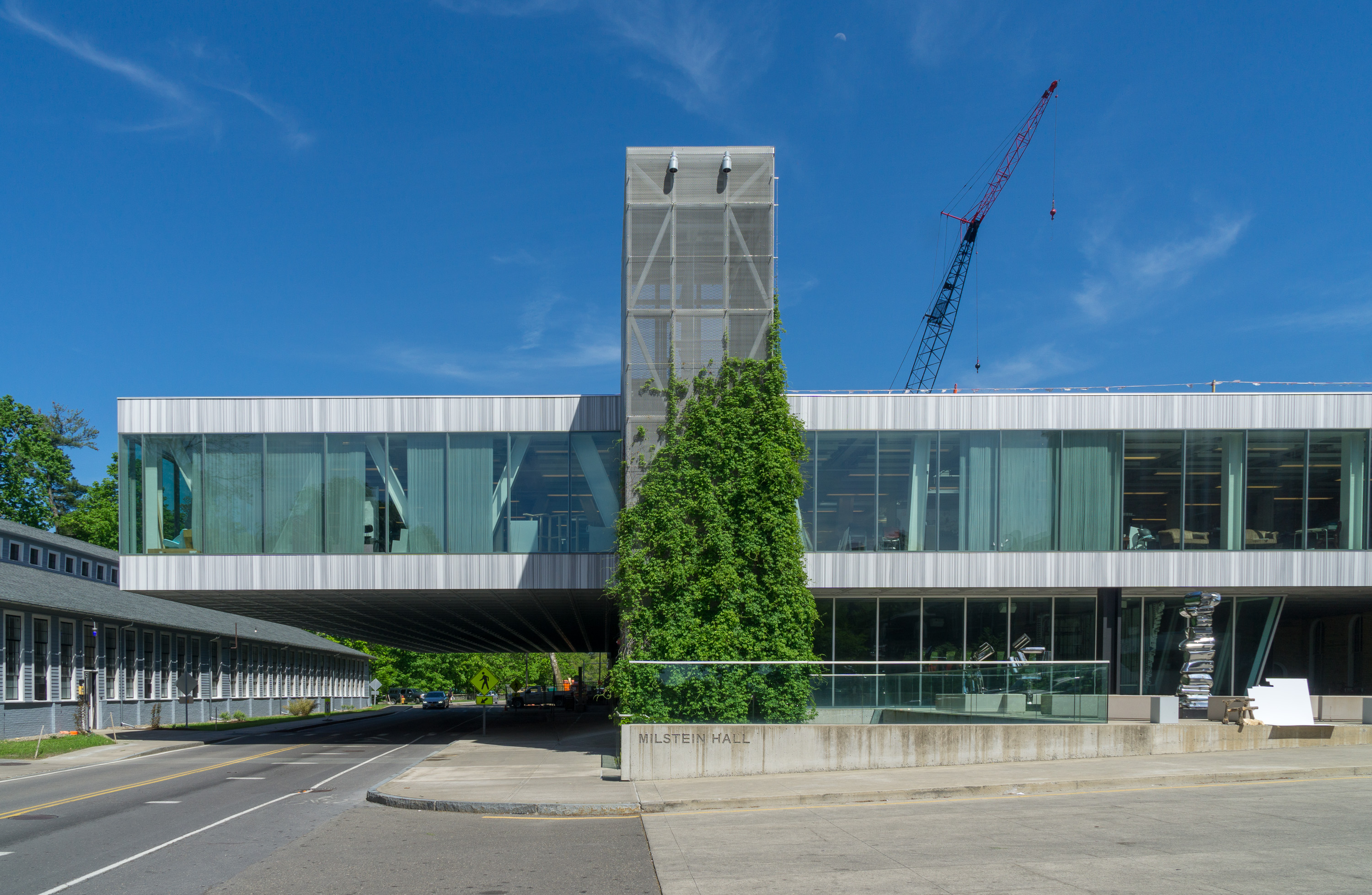 Milstein Hall, Cornell University, Ithaca, NY